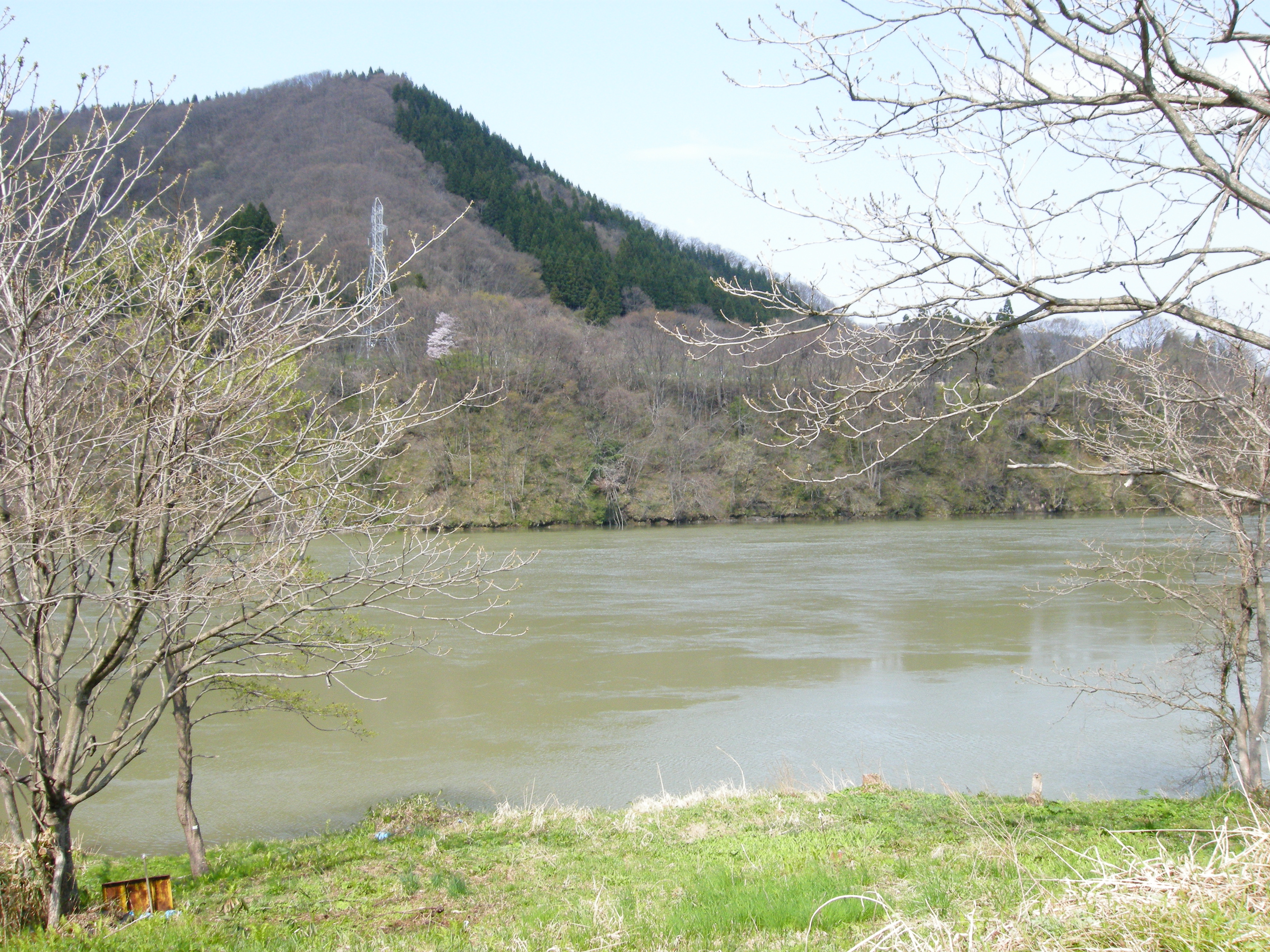 Aga River(Ōkawa River)